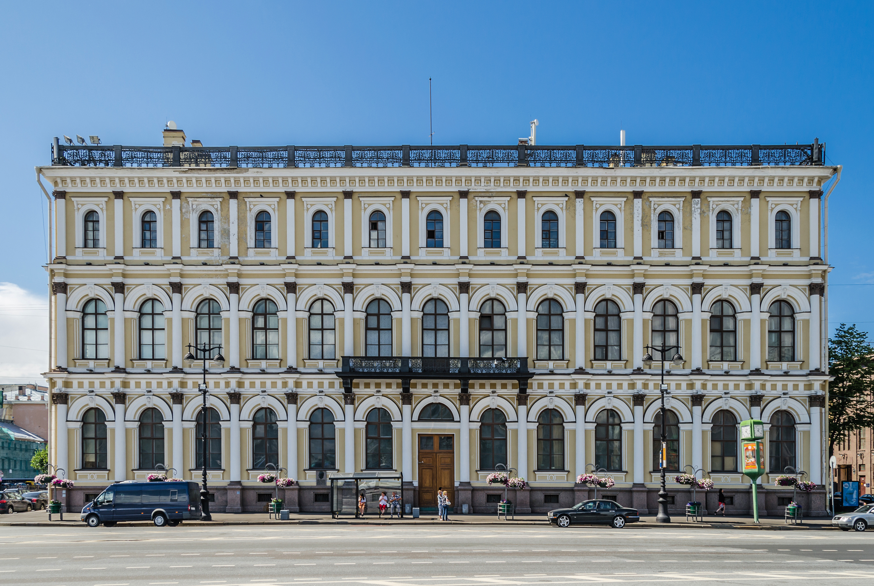 Institute of Plant Industry in Saint Petersburg. 13, St Isaac's Square.